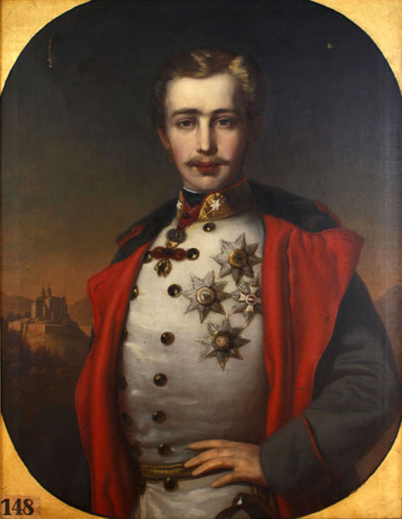 Archduke Karl Ludwig of Austria